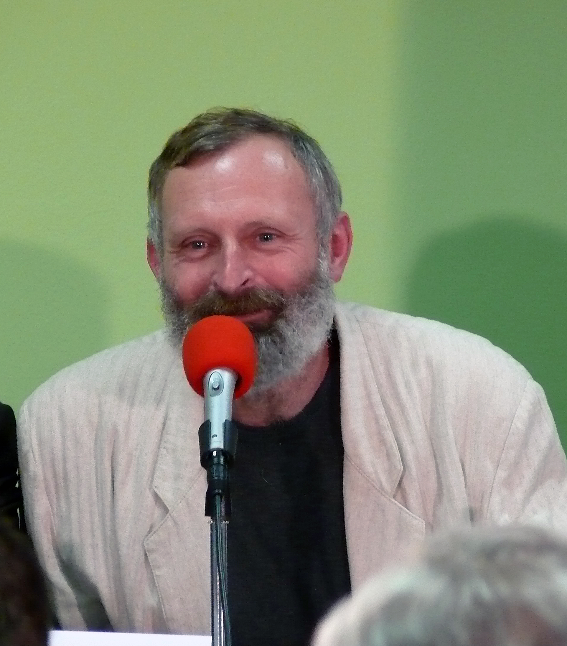 Slovak ecologist Mikuláš Huba during discussion of Society for Sustainable Living in Prague